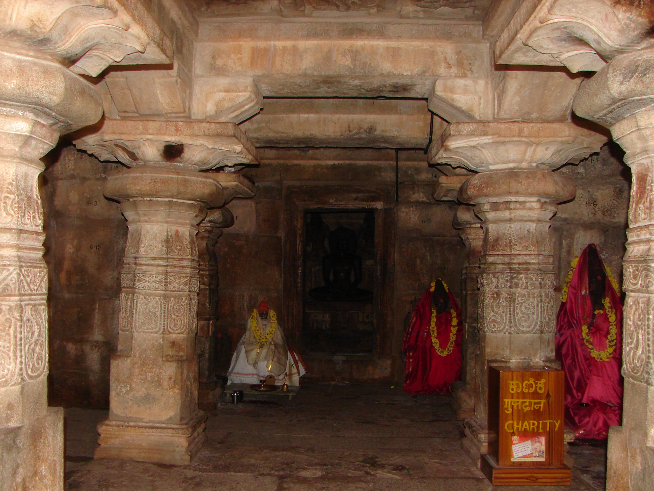 This photograph was taken by me at the Panchakuta Basadi at Kambadahalli, Mandya district, Karnataka state, India. Kambadahalli was important Jain religious center during the 9th-10th century. This monument was built around 900 A.D. during the reign of the Western Ganga dynasty and is considered a fine example of Dravidian architecture.